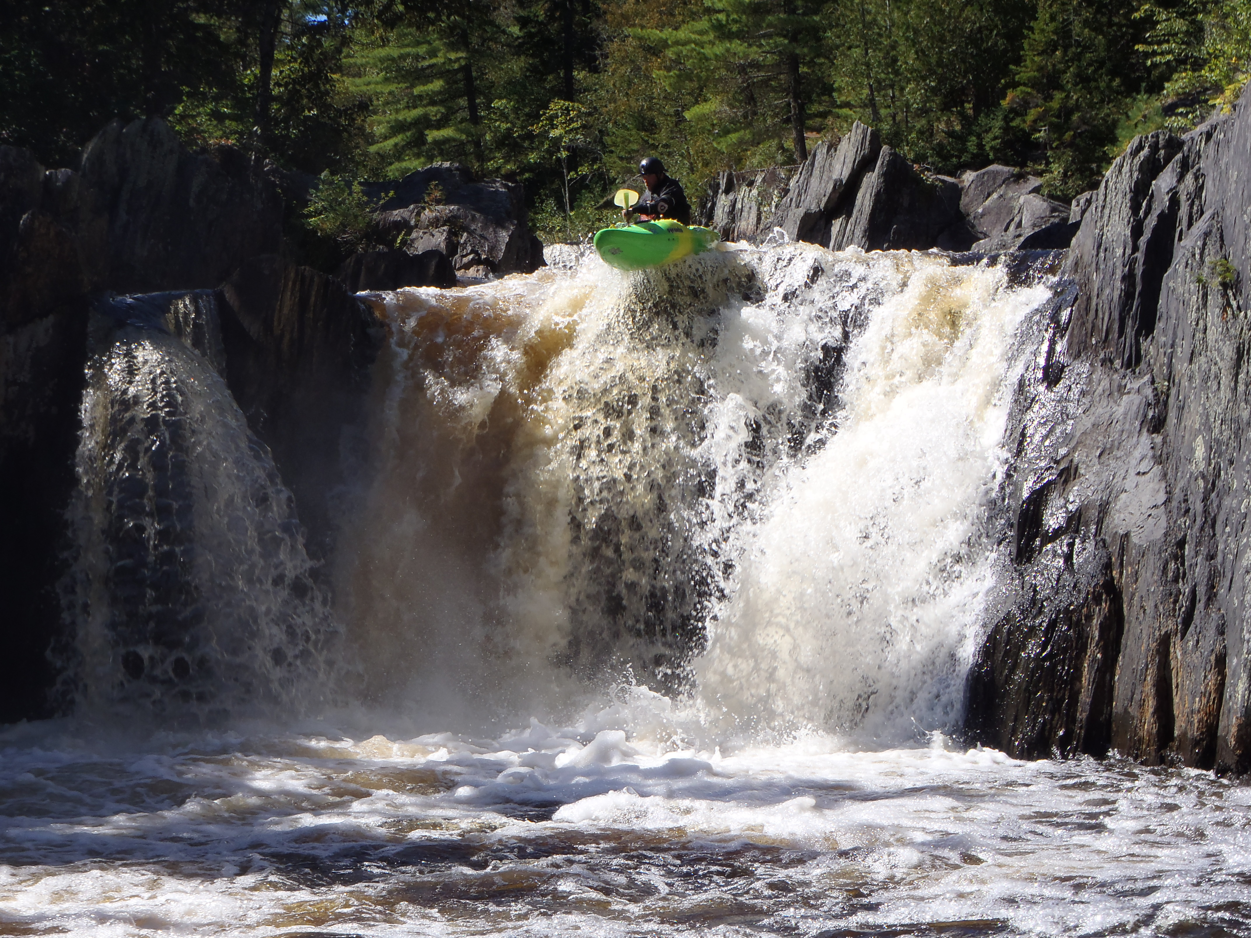 A kayaker tackles Billings Falls